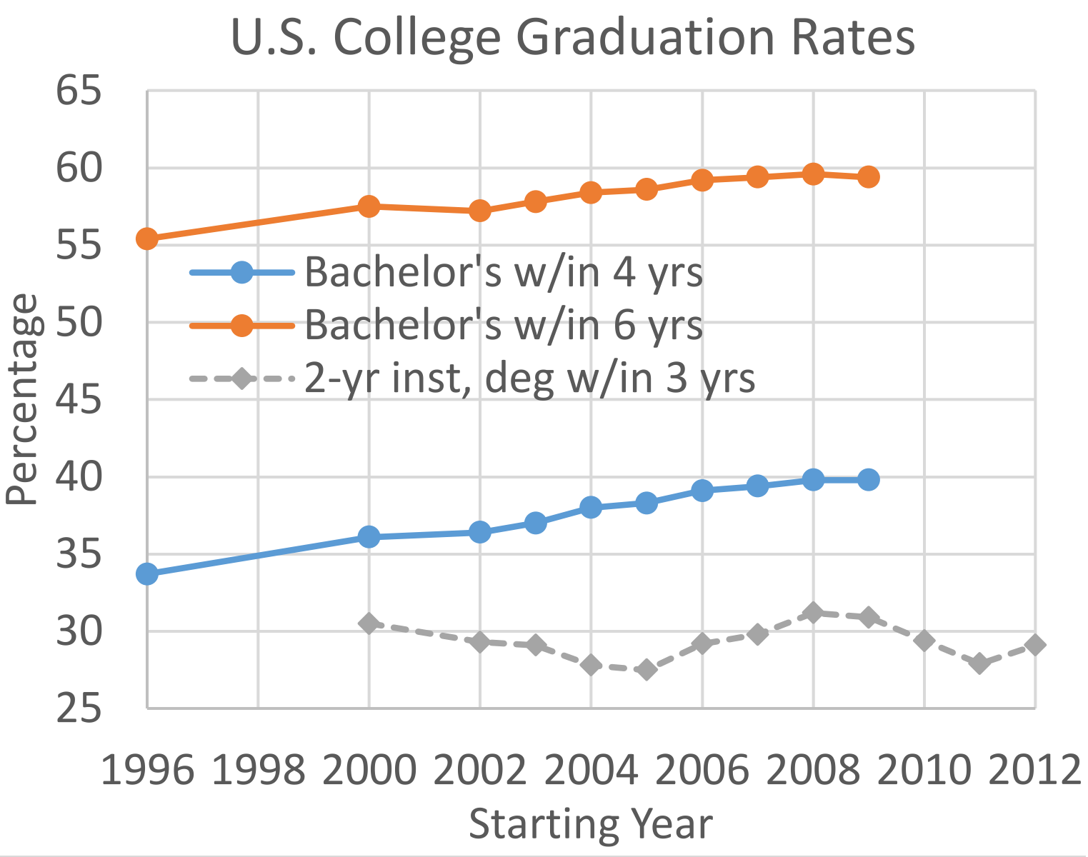 Source of graduation rates from 4-year institutions: Table 326.10. Graduation rate from first institution attended for first-time, full-time bachelor’s degree- seeking students at 4-year postsecondary institutions, by race/ethnicity, time to completion, sex, control of institution, and acceptance rate: Selected cohort entry years, 1996 through 2009 ( Source of graduation rates from 2-year institutions: Table 326.20. Graduation rate from first institution attended within 150 percent of normal time for first-time, full-time degree/certificate-seeking students at 2-year postsecondary institutions, by race/ethnicity, sex, and control of institution: Selected cohort entry years, 2000 through 2012 (